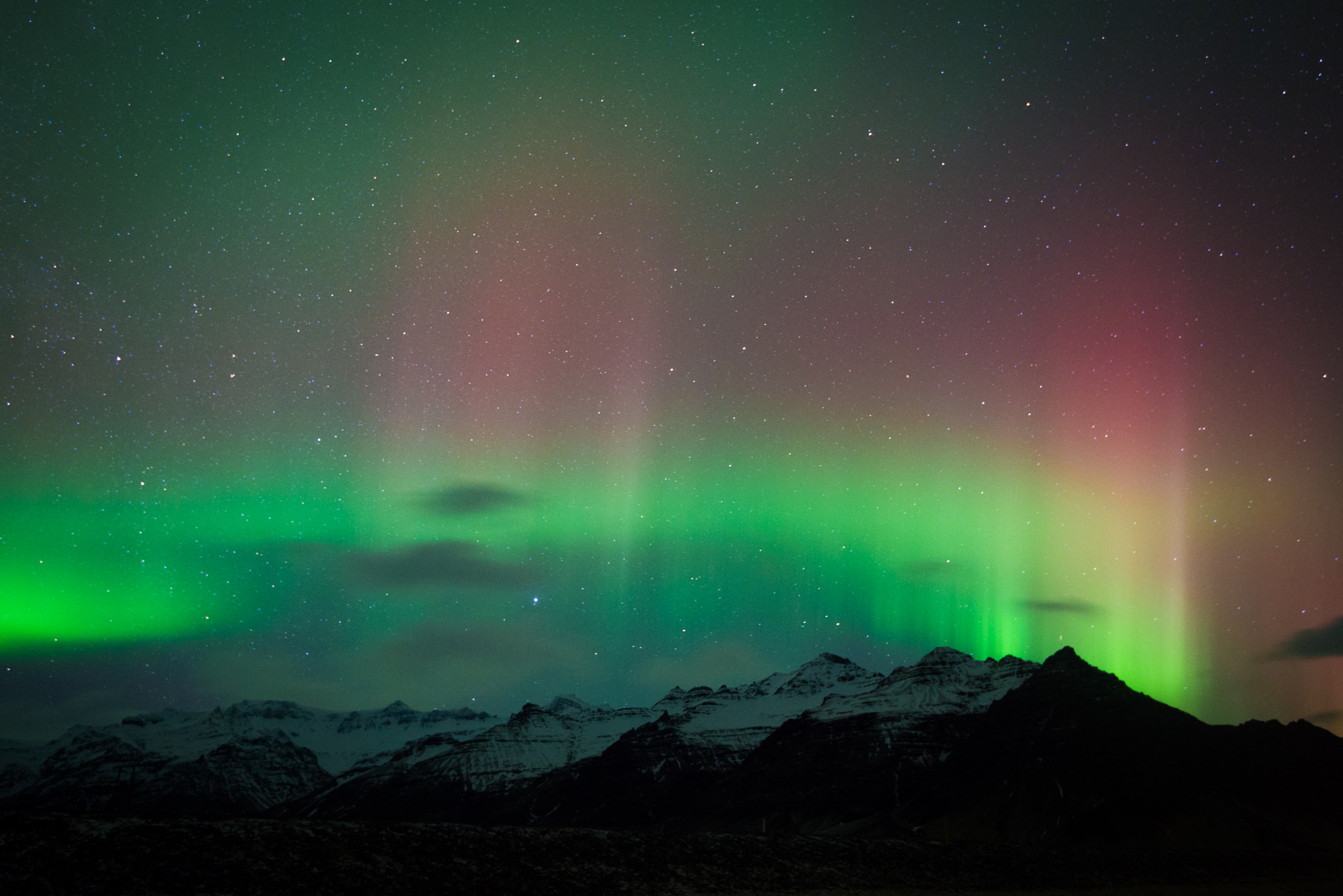 500px provided description: Quite a display! Part of the "paranormal activity" series, shot in February 2015 in Hali, southern Iceland. We managed to capture the northern lights on a cloudy day, when the weather changed drastically for the better last minute - we ran into our car and drove a couple kilometers East, to avoid lights from the village. Here is the result ;-) [#mountains ,#winter ,#night ,#lights ,#snow ,#aurora ,#february ,#iceland ,#jokulsarlon ,#northern ,#hali ,#2015]